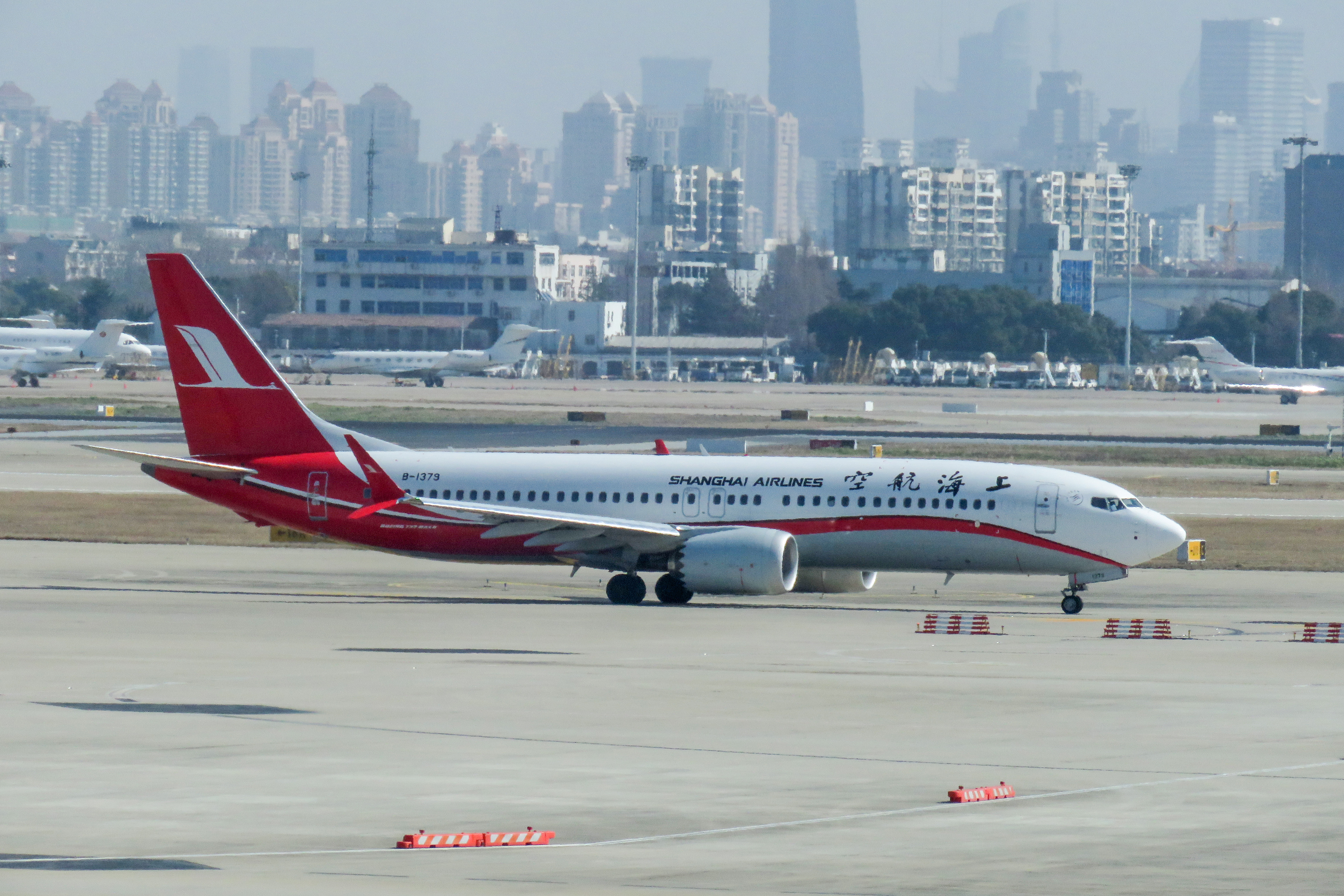 Shanghai Air 9391 to Changsha. Another MAX here...